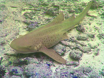 Leopard shark or zebra shark (Stegostoma fasciatum)